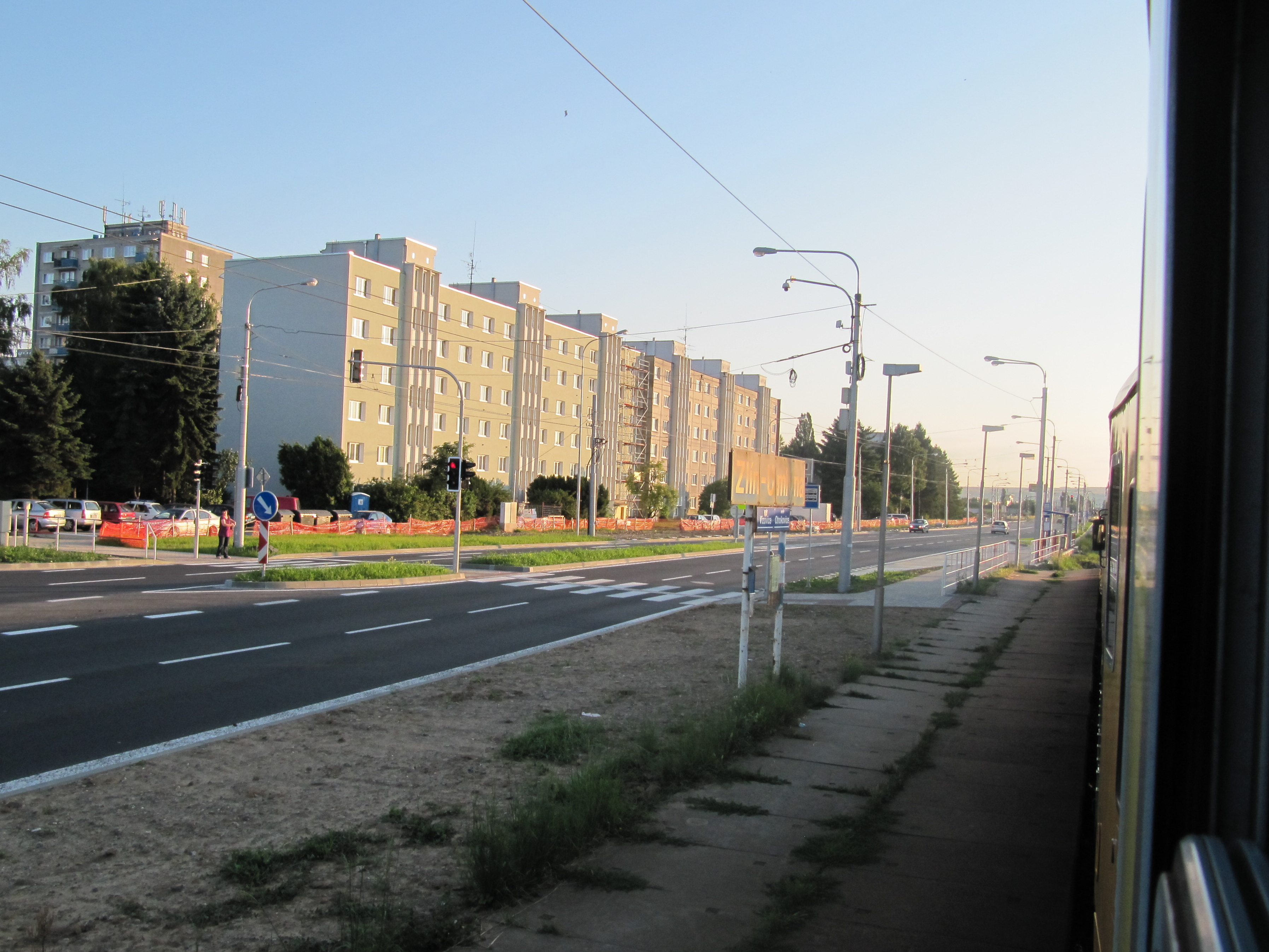 Zlín, Czech Republic, part Malenovice. Train stop Zlín-U Mlýna.